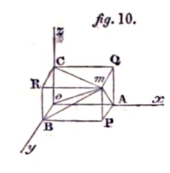 Figure from Mary Somerville's Mechanism of the heavens. Book in the Public Domain